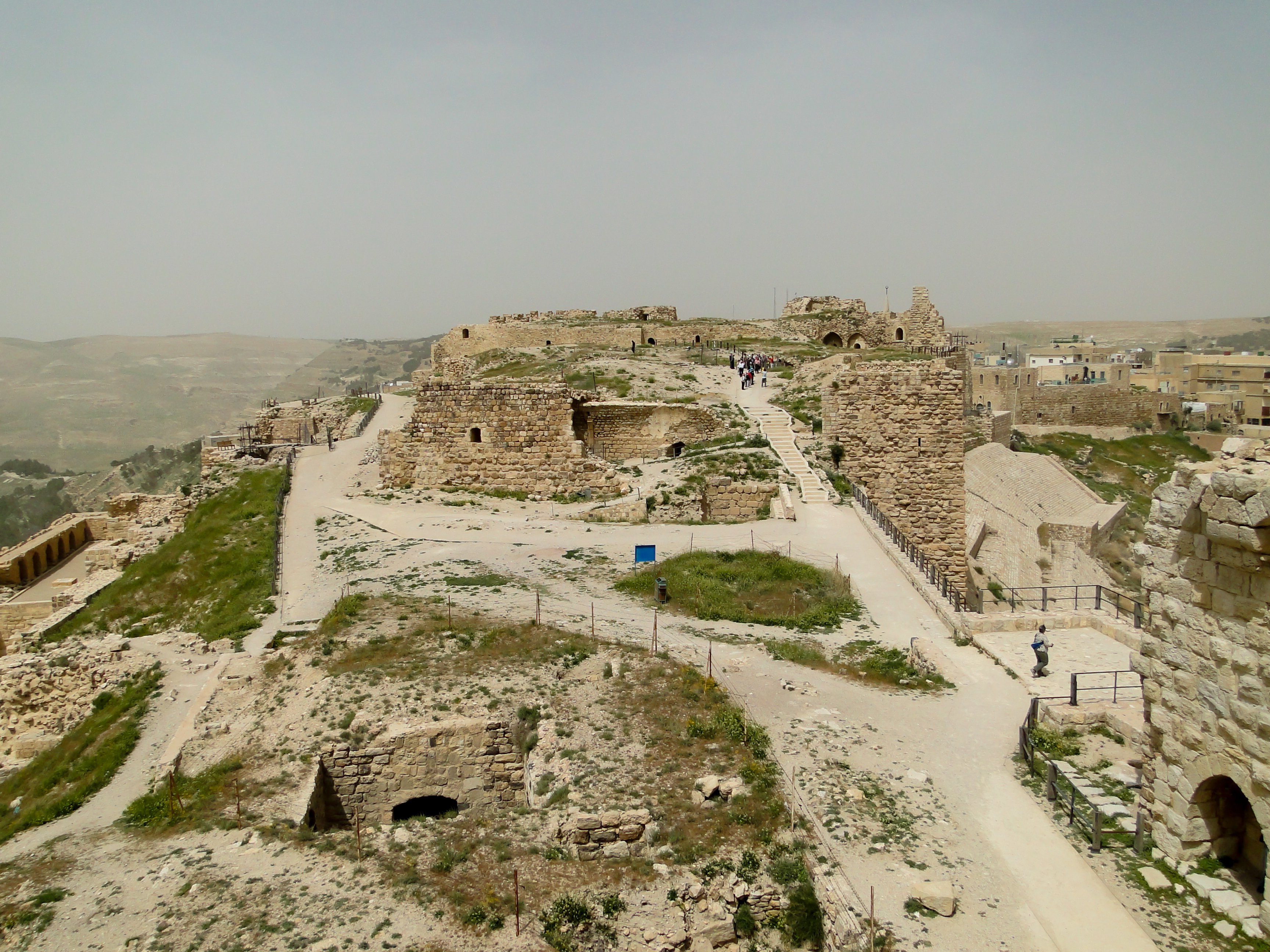 View of the Upper court of the Karak Castle seen from the keep, Al Karak, Jordan